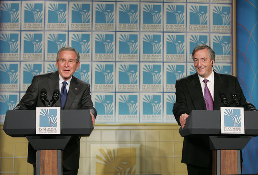 President George W. Bush and Argentina's President Nestor Carlos Kirchner smile as they hold a joint press availability Friday, Nov. 4, 2005, after meeting privately at the Hermitage Hotel in Mar del Plata, Argentina.